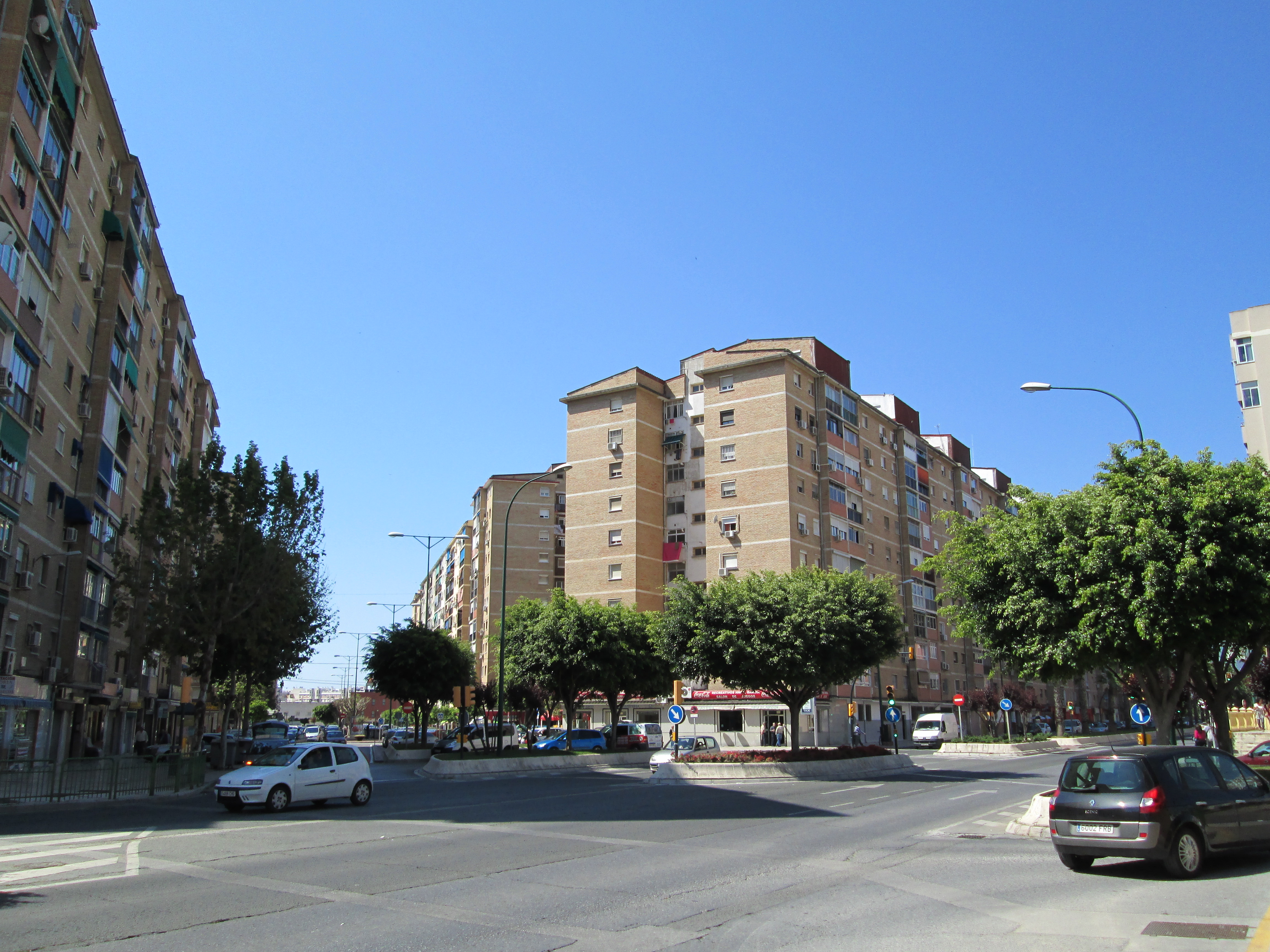 Apartment buildings in Málaga.